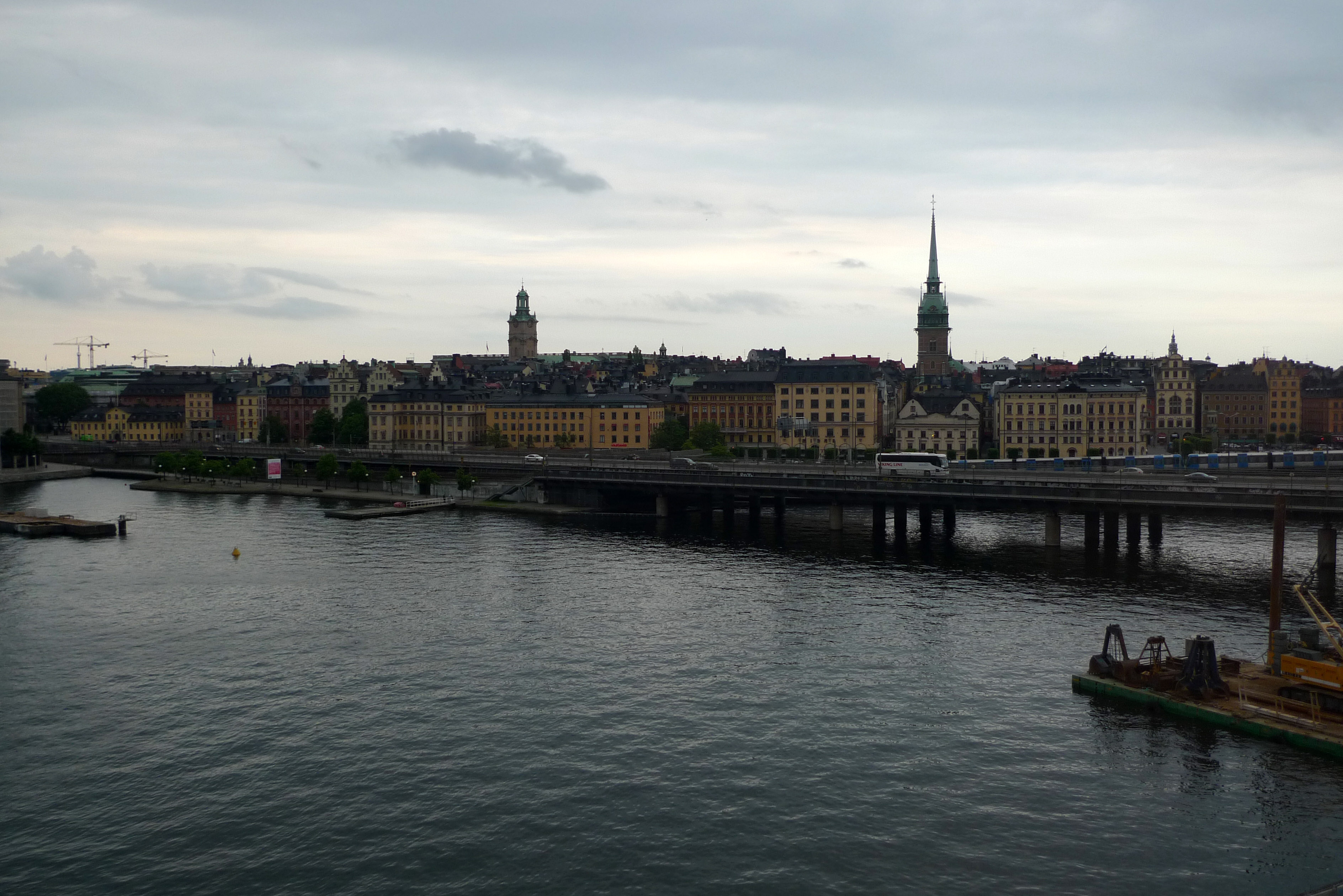 Gamla Stan in the evening